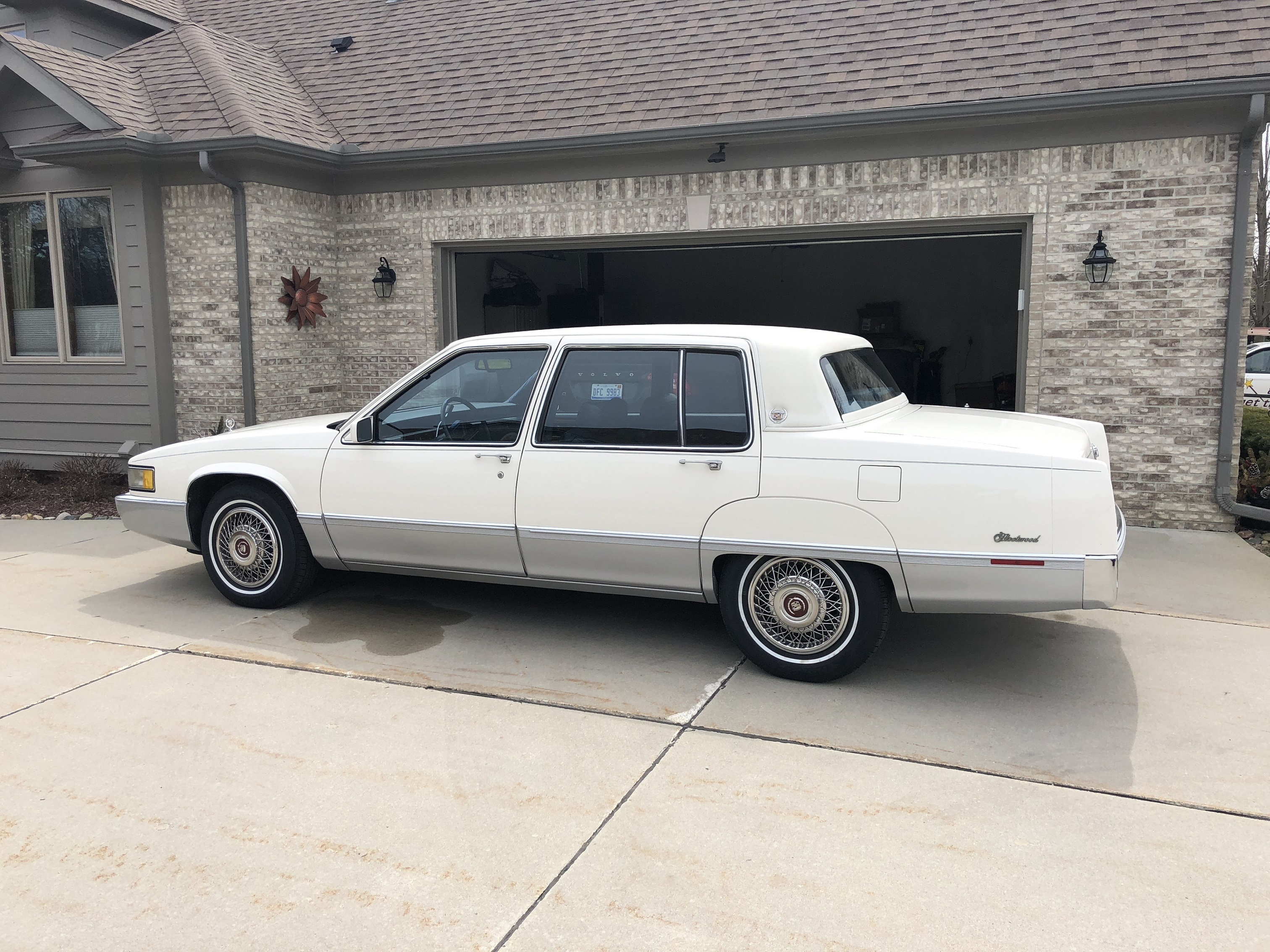 1989 Cadillac Fleetwood Sedan